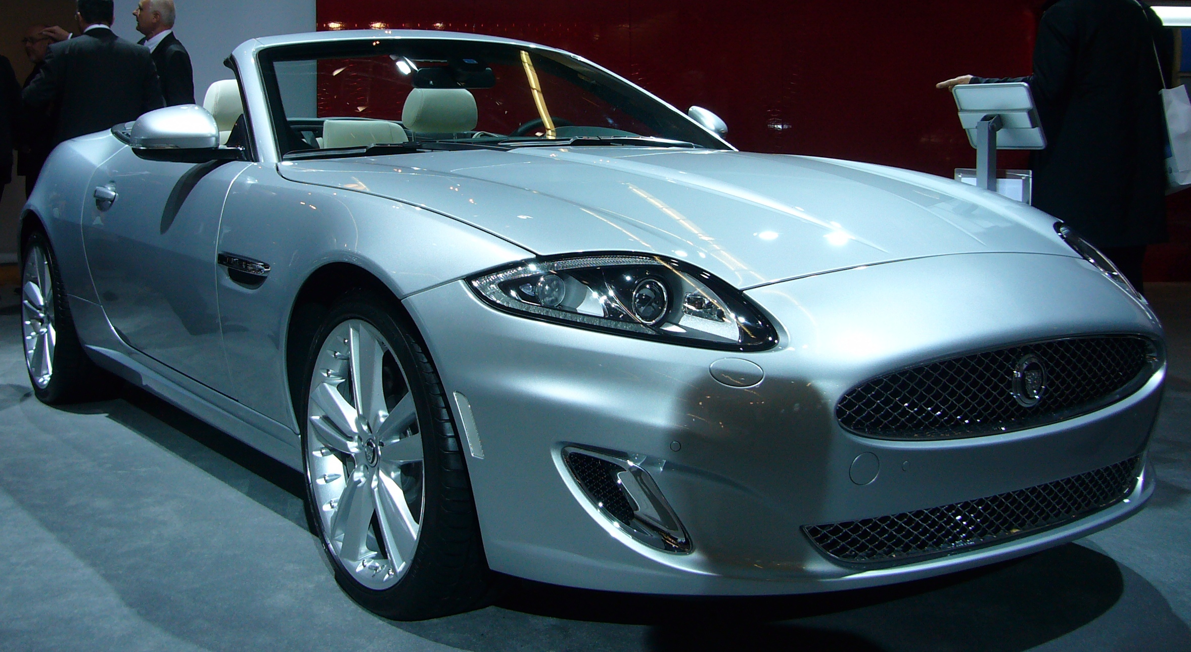 Jaguar XK (X150) Convertible facelift